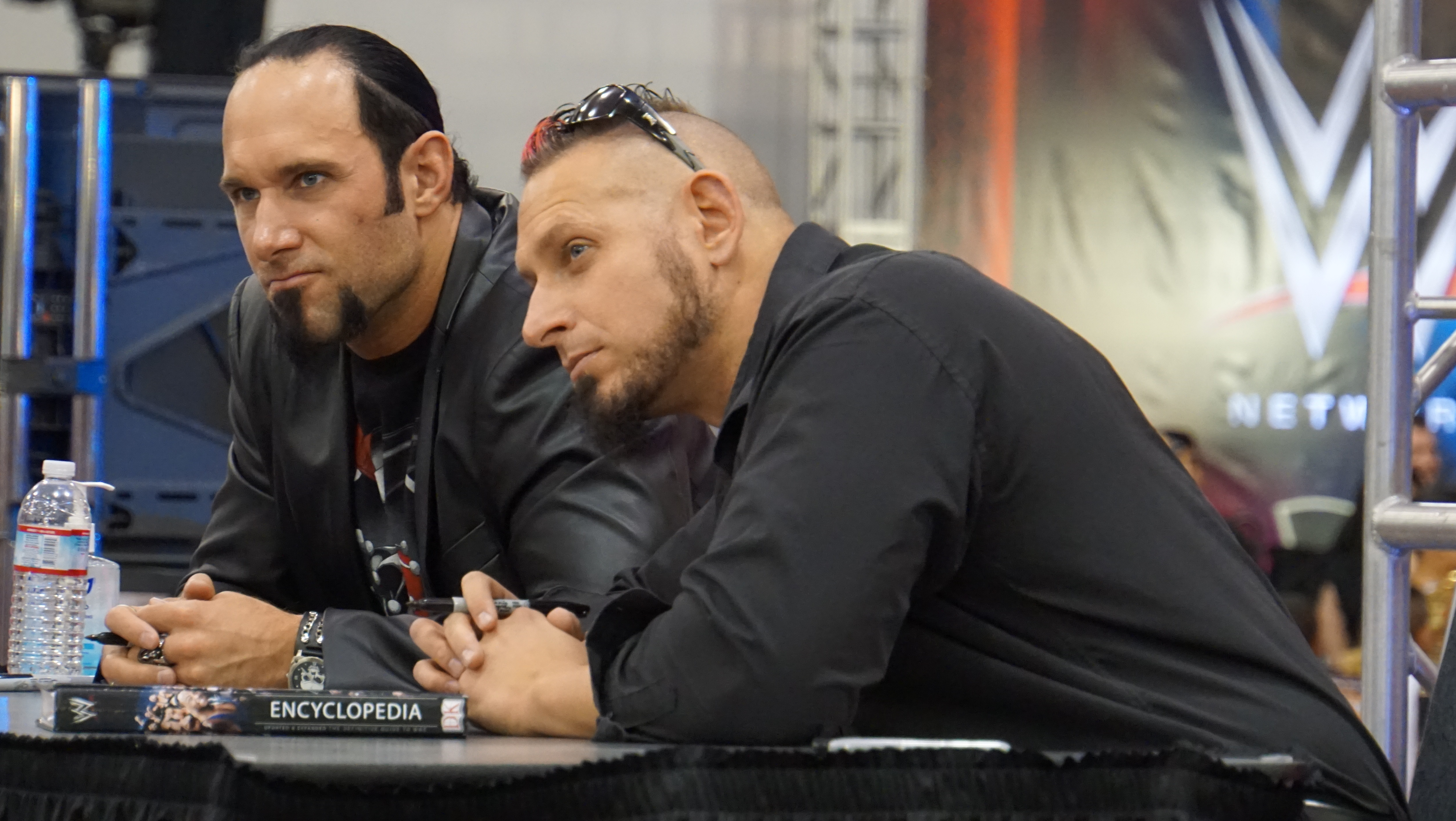 The Ascension (Konnor and Viktor) at WrestleMania 31 Axxess in March 2015.